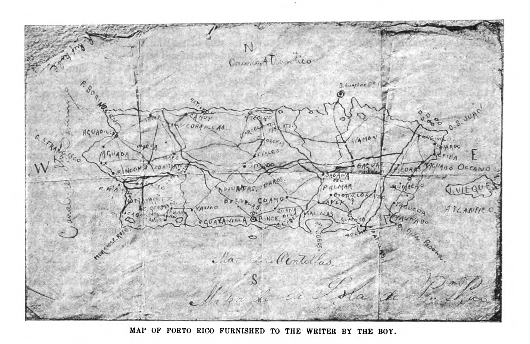 This is a map of Puerto Rico drawn by Rudolph W. Riefkohl in 1898 and published in "Alone in Puerto Rico, by Edwin Emerson Jr., Century Magazine, Vol. 56, Issue 5, pp. 673, in September 1898 twenty five years before the implementation of copyright laws and therefore PD. Further reference